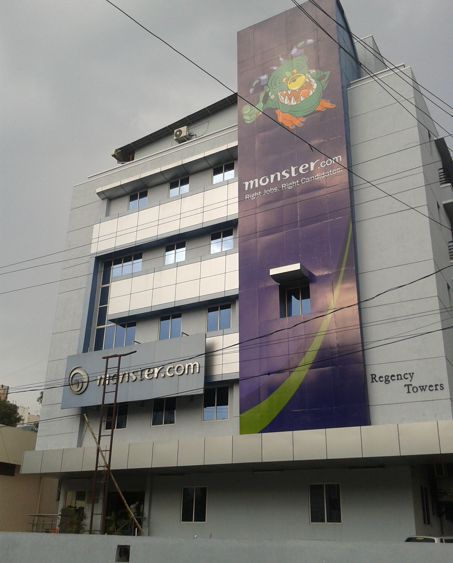 's Hyderabad office